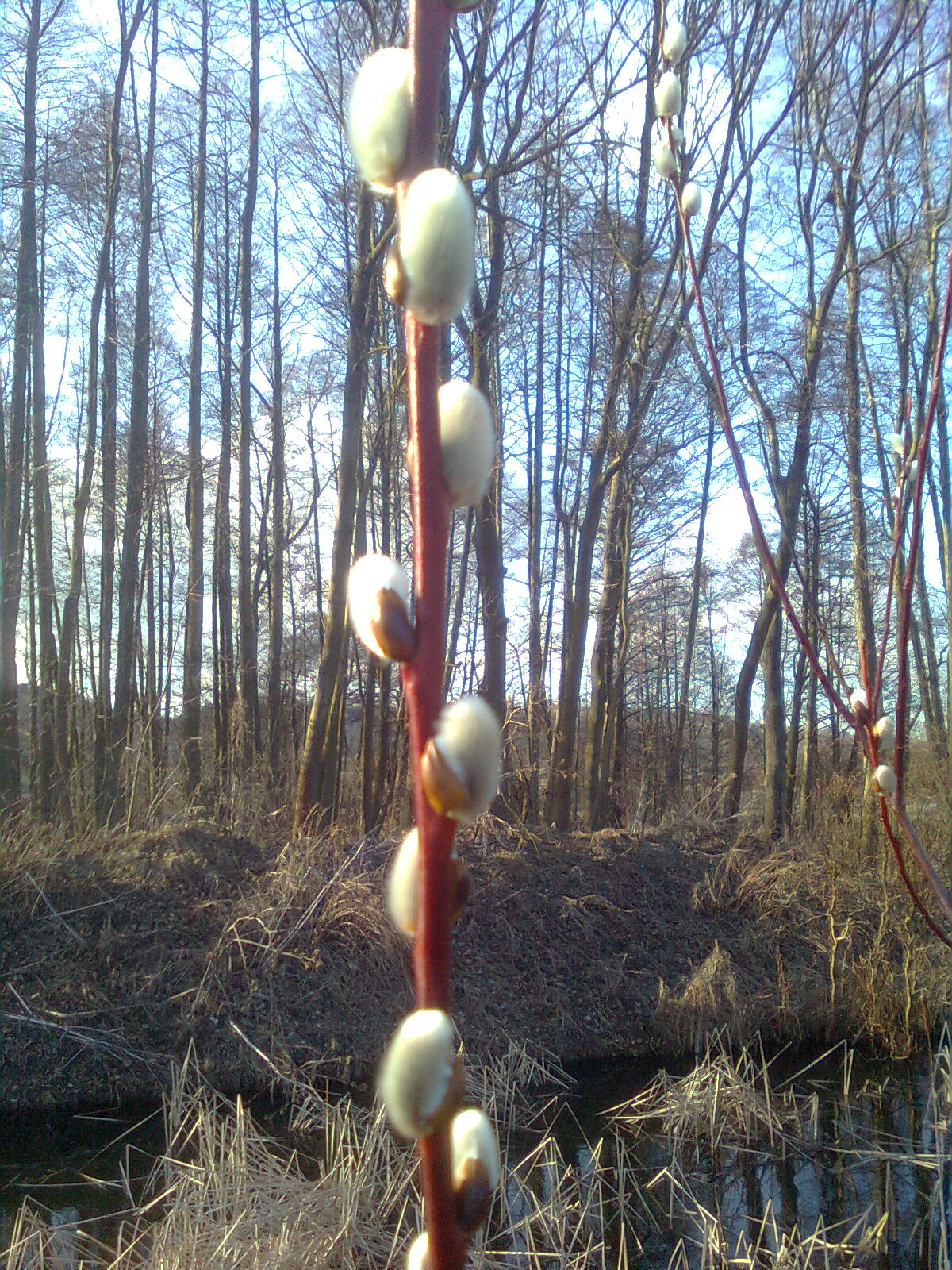 Catkins of purple willow